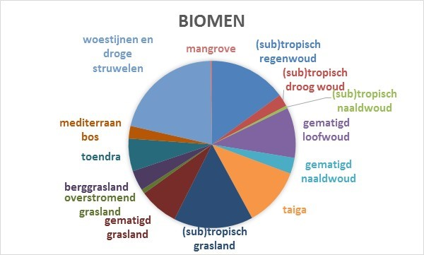 A pie chart of the size % of the 14 WWF biomes. (In Dutch)